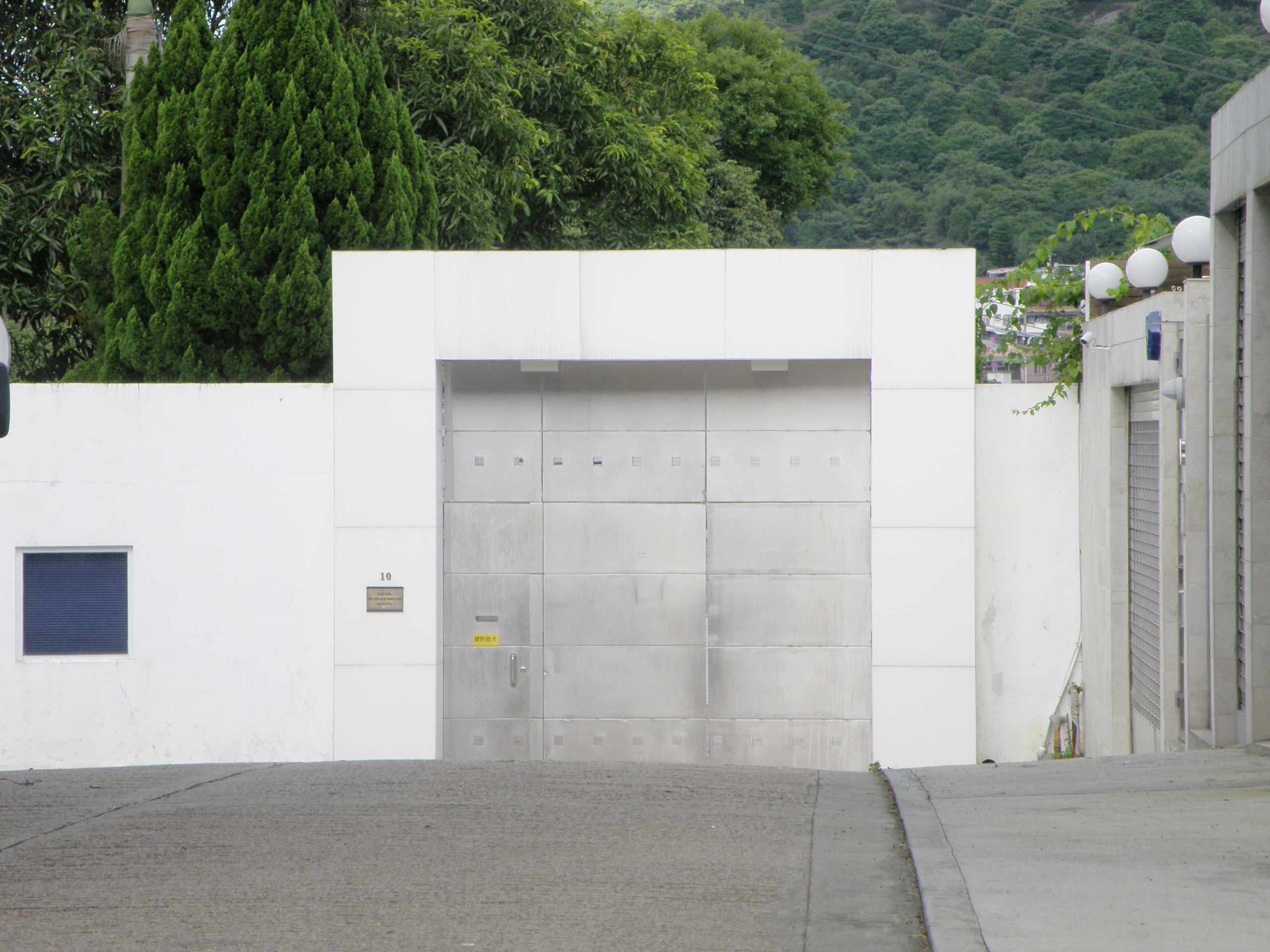 10 Kam Shue Road in Sai Kung, Hong Kong.